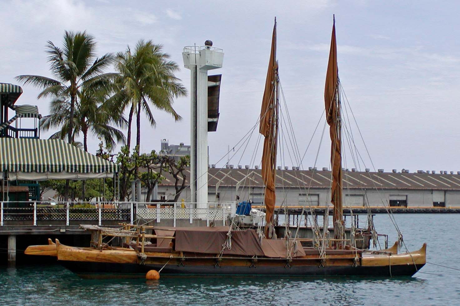 Photo of Polynesian canoe replica Hawai'iloa in Honolulu harbor